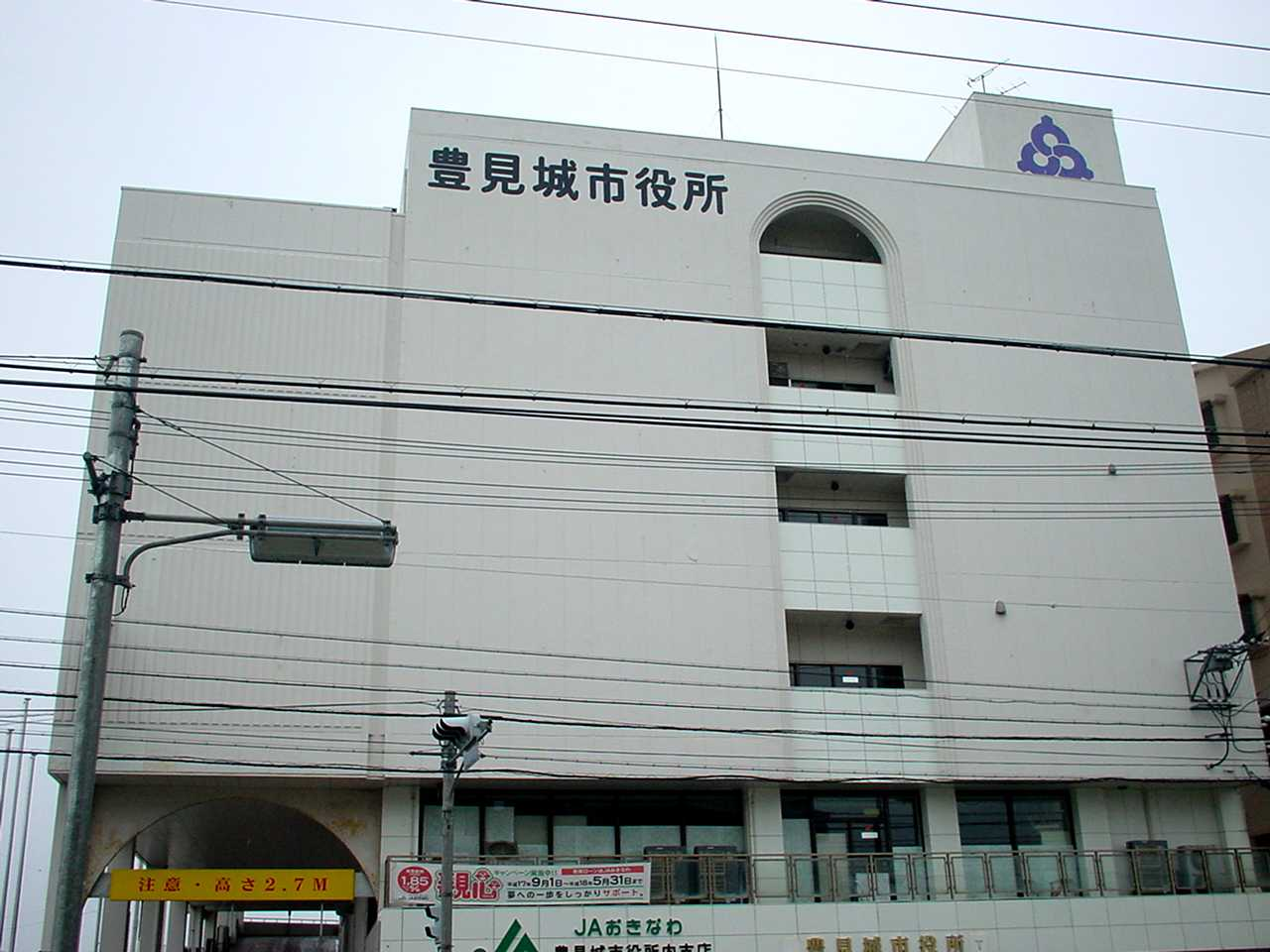 Tomigusuku City Hall in Okinawa, Japan.